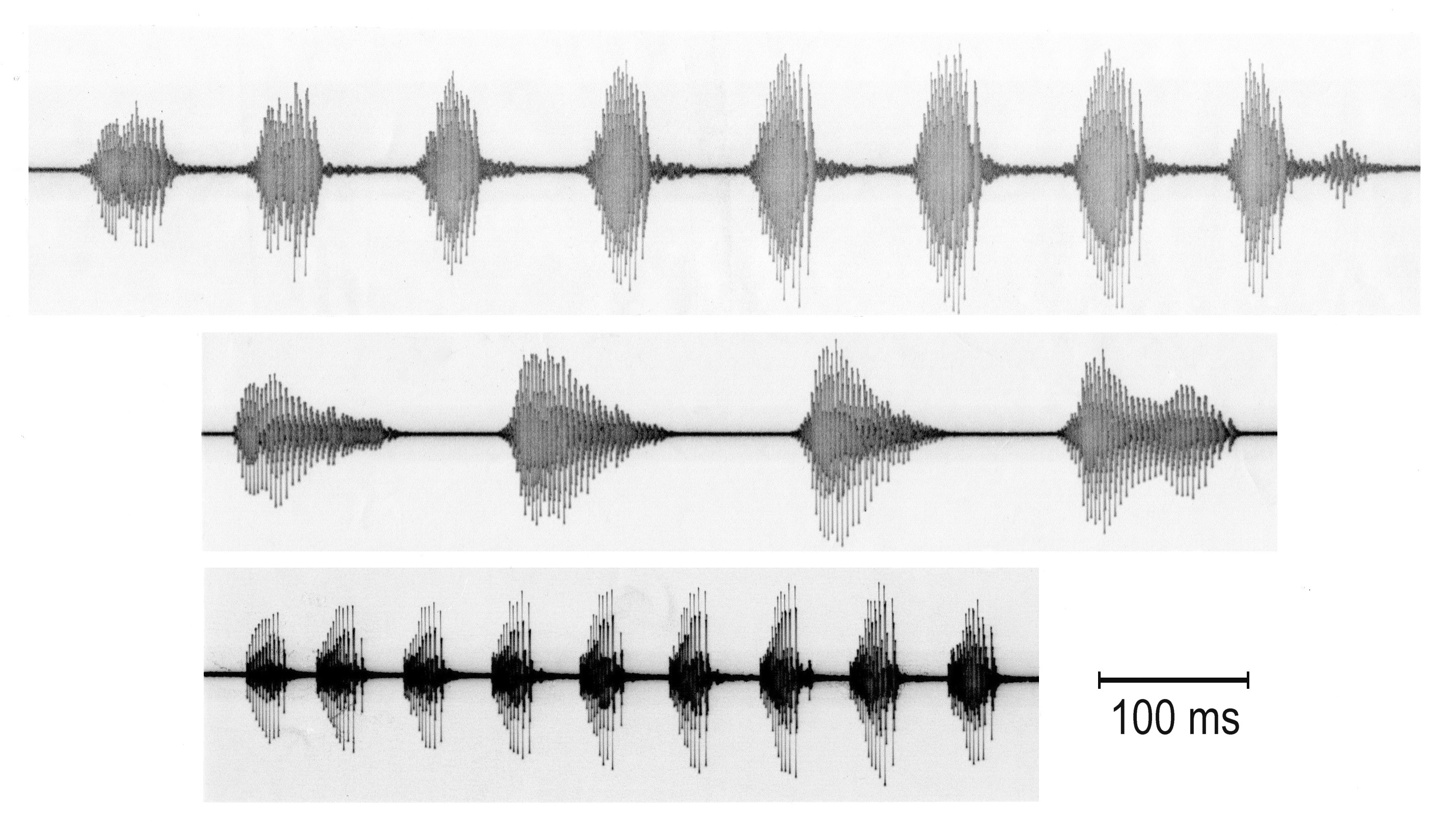 Sound pictures (oscillograms) of mating calls for water frogs. Above: Pelophylax ridibundus, tape recording May 20, 1990 near Atyrau, Kazakhstan, (type locality of Pelophylax ridibundus), water temperature 19.7 °Celsius. Middle: Pelophylax kurtmuelleri, tape recording March 28, 1982 on the Gallikos river near Thessaloniki, Greece, water temperature 20.3°Celsius. Below: Pelophylax bedriagae, tape recording April 28, 1997, location of tape recording Birket Ata near Hadera, Israel, water temperature 20.5 °Celsius.